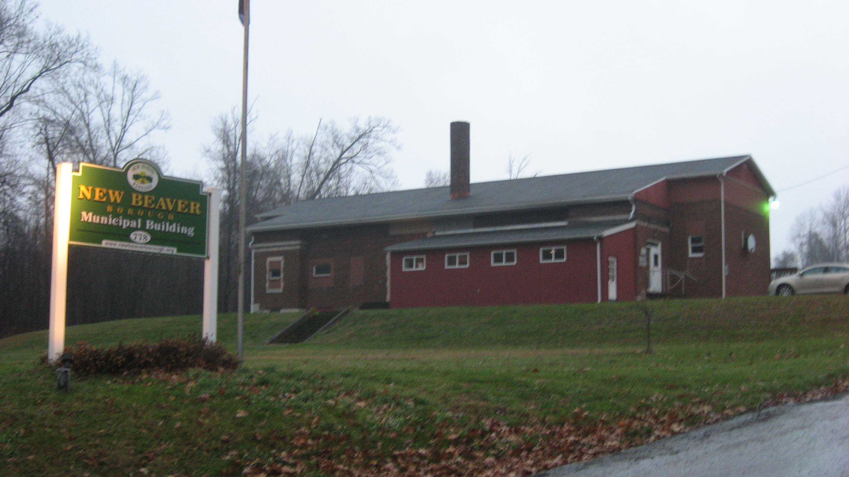 Front of the New Beaver municipal building, located at 778 Wampum New Galilee Road in New Beaver, Pennsylvania, United States.